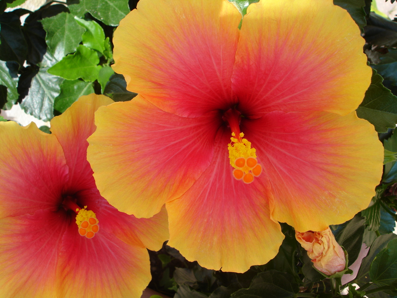 My beautiful hybiscus in ISCHIA